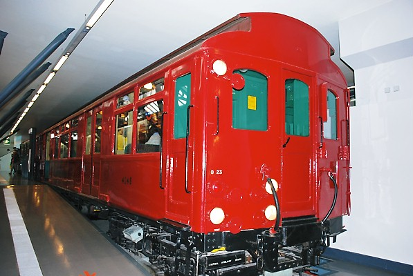 London Transport "Q" Stock ("Q23" group) motor end car No.4248 converted in 1938 from District Line "G" Stock built in 1923 by the Gloucester Carriage & Wagon Co. Used until 1963 on District Line when re-allocated to East London Line and not finally withdrawn until 1971. At the London Transport Museum, 06/09.